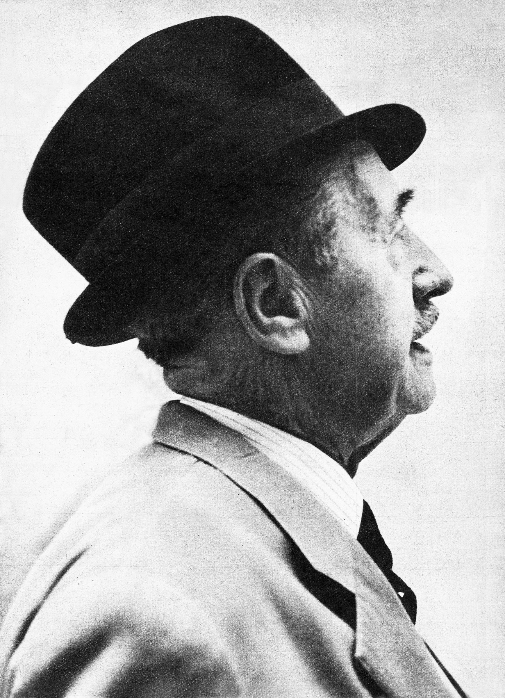 Stanisław Rzecki, Polish sculptor, painter and engraver